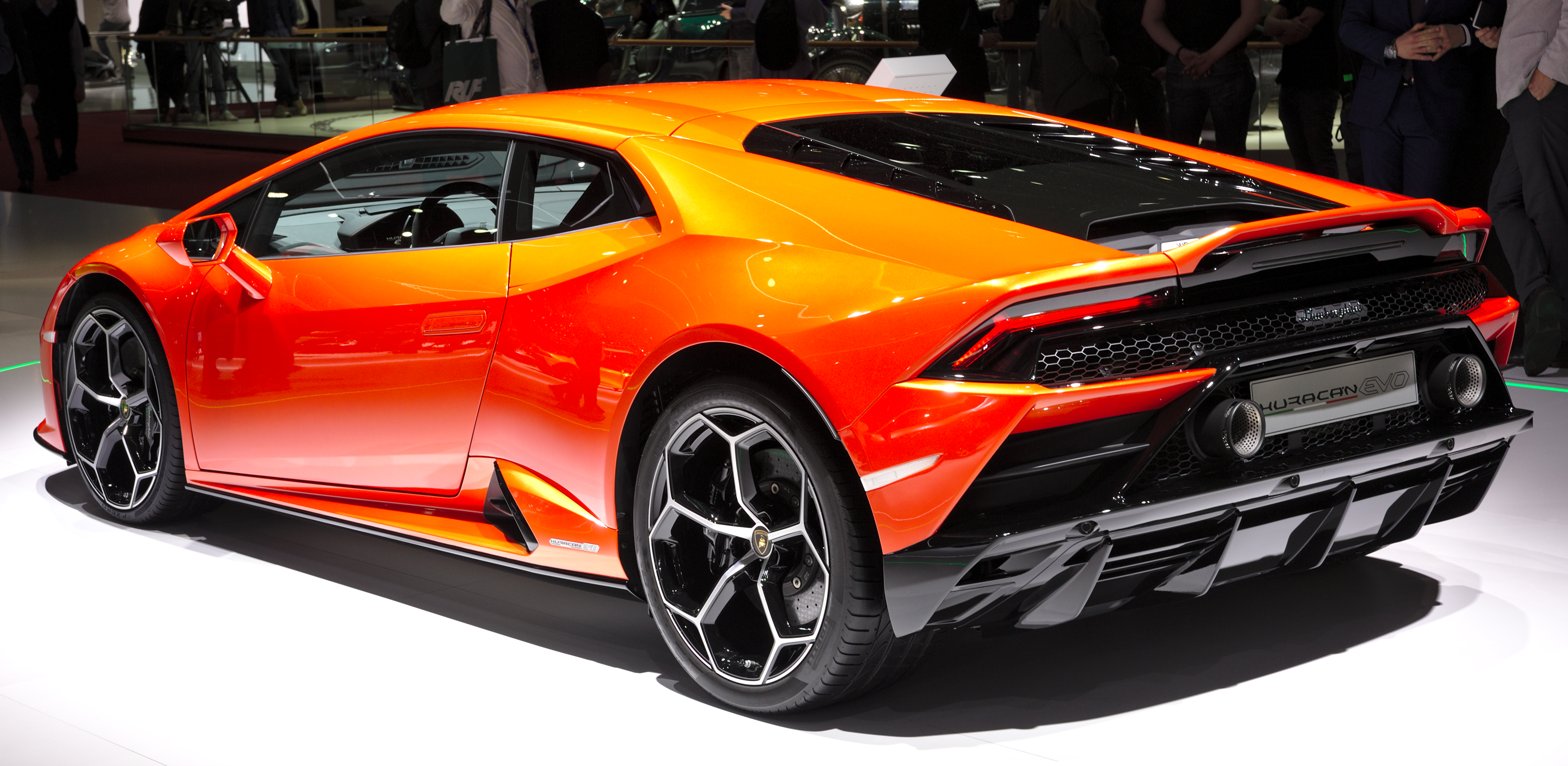 Lamborghini Huracan Evo at Geneva Motor Show 2019